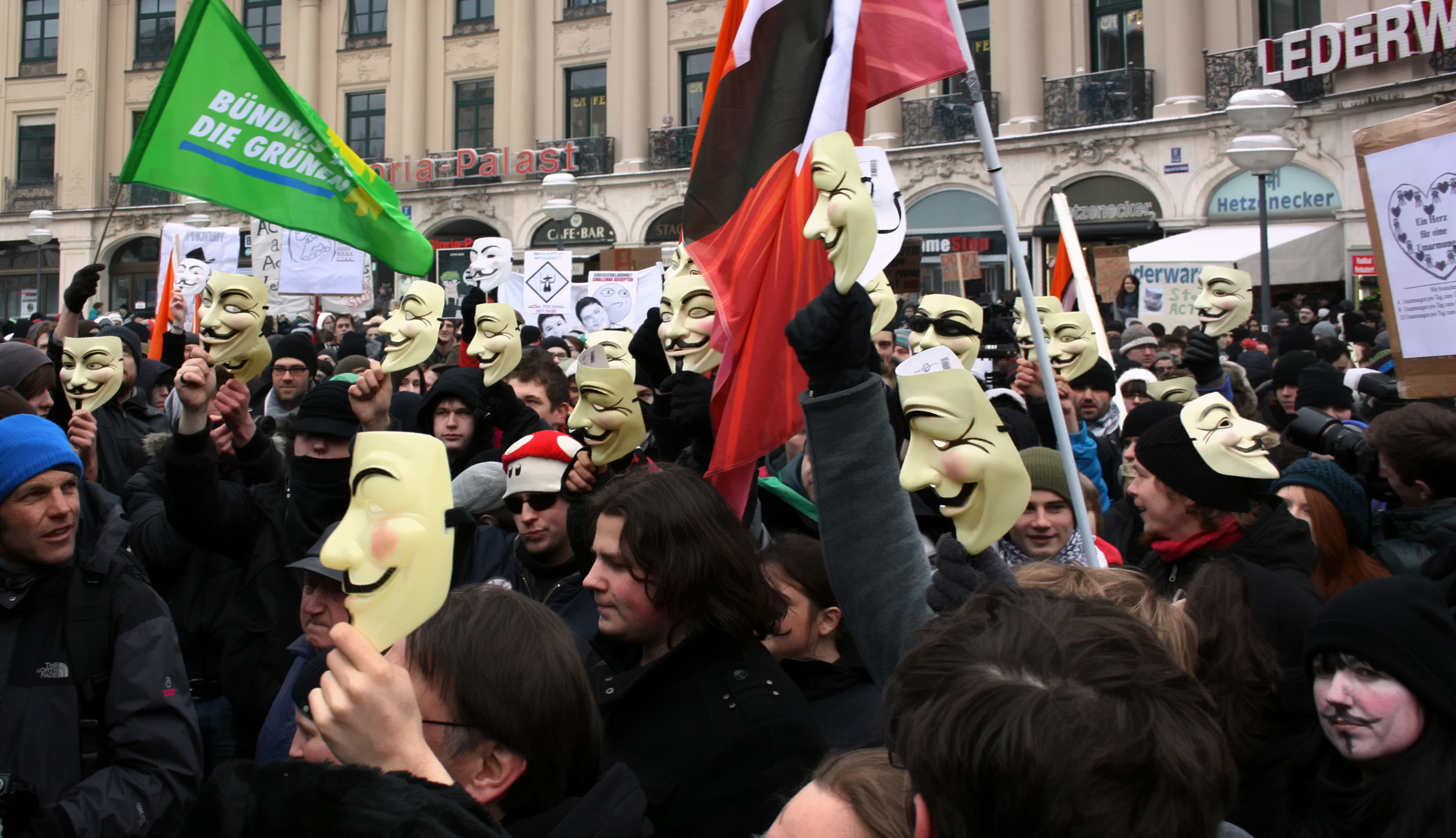 February 11th, 2012 Protest anti ACTA in Munich